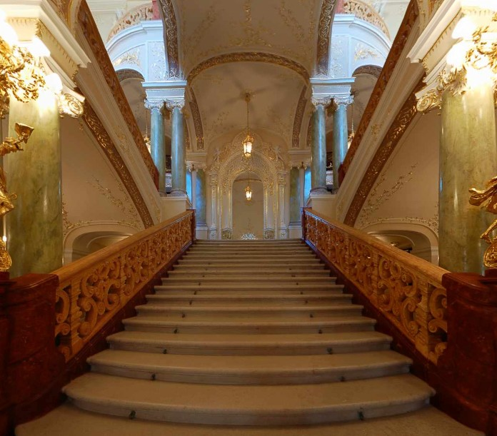 Front stairs